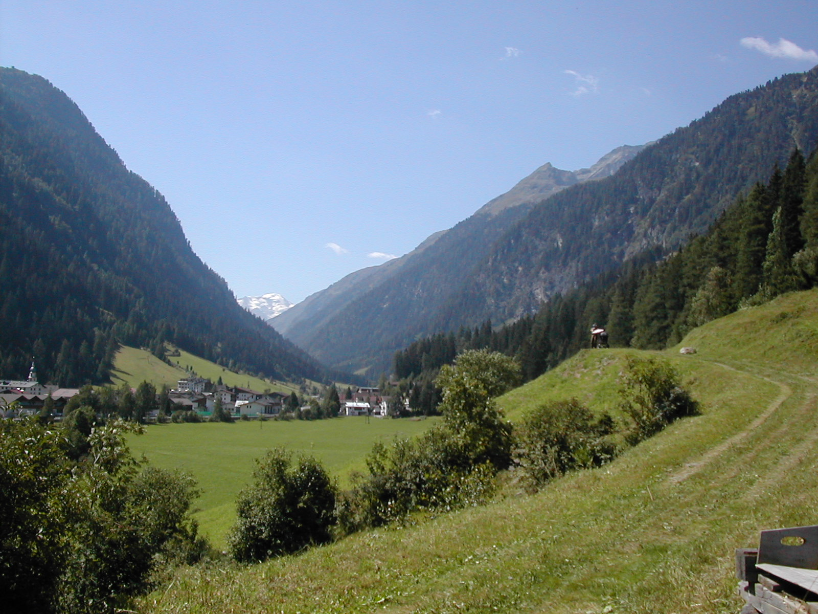 Feichten, Kaunertal, Austria, Background:Weißseespitze